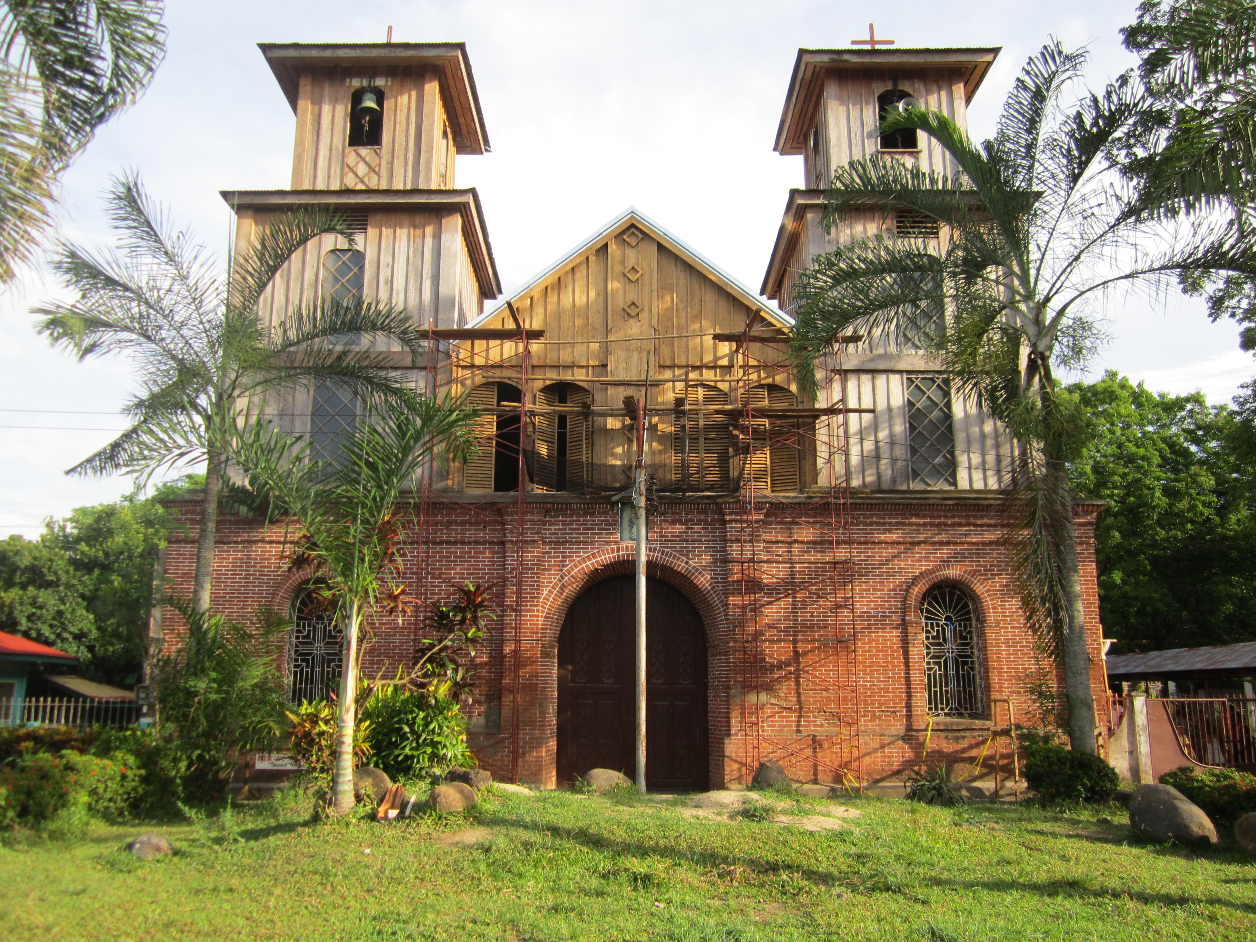 Immaculate Conception Church Features and Details. Built on 1840 by Jesuits, this church is located in Jasaan, Misamis Oriental, Philippines.